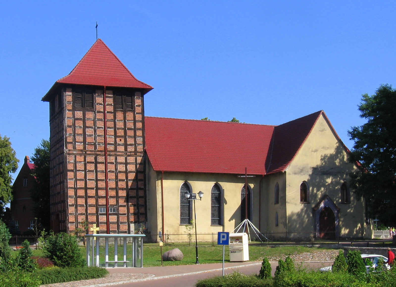 Our Mother of Perpetual Help Roman Catholic Church in Drawno, Poland